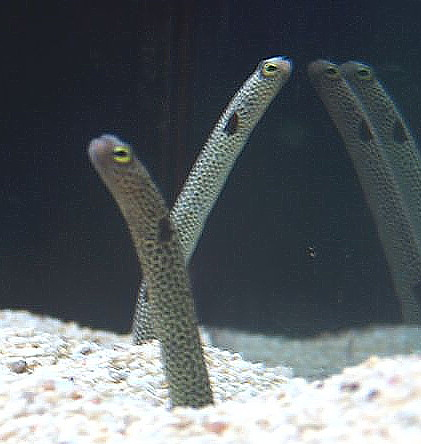 Spotted garden eel